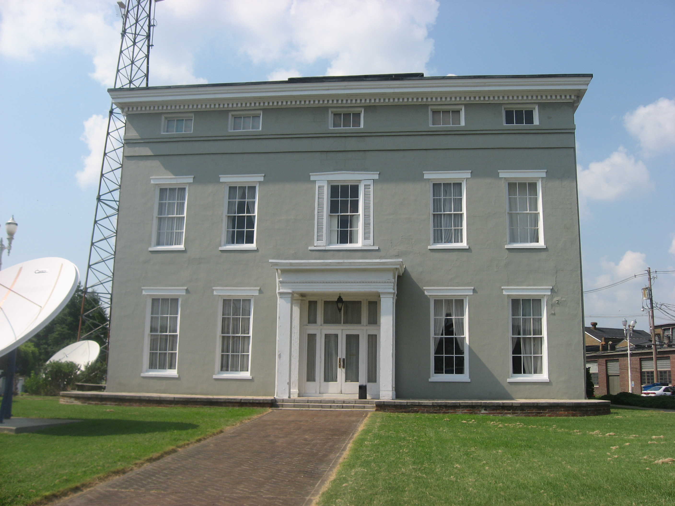 Front of the Willard Carpenter House, located at 405 Carpenter Street in Evansville, Indiana, United States. Built in 1848, it is listed on the National Register of Historic Places.